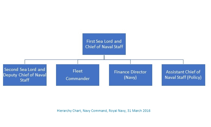 My own work created using MS Smart Art and MS Paint based in